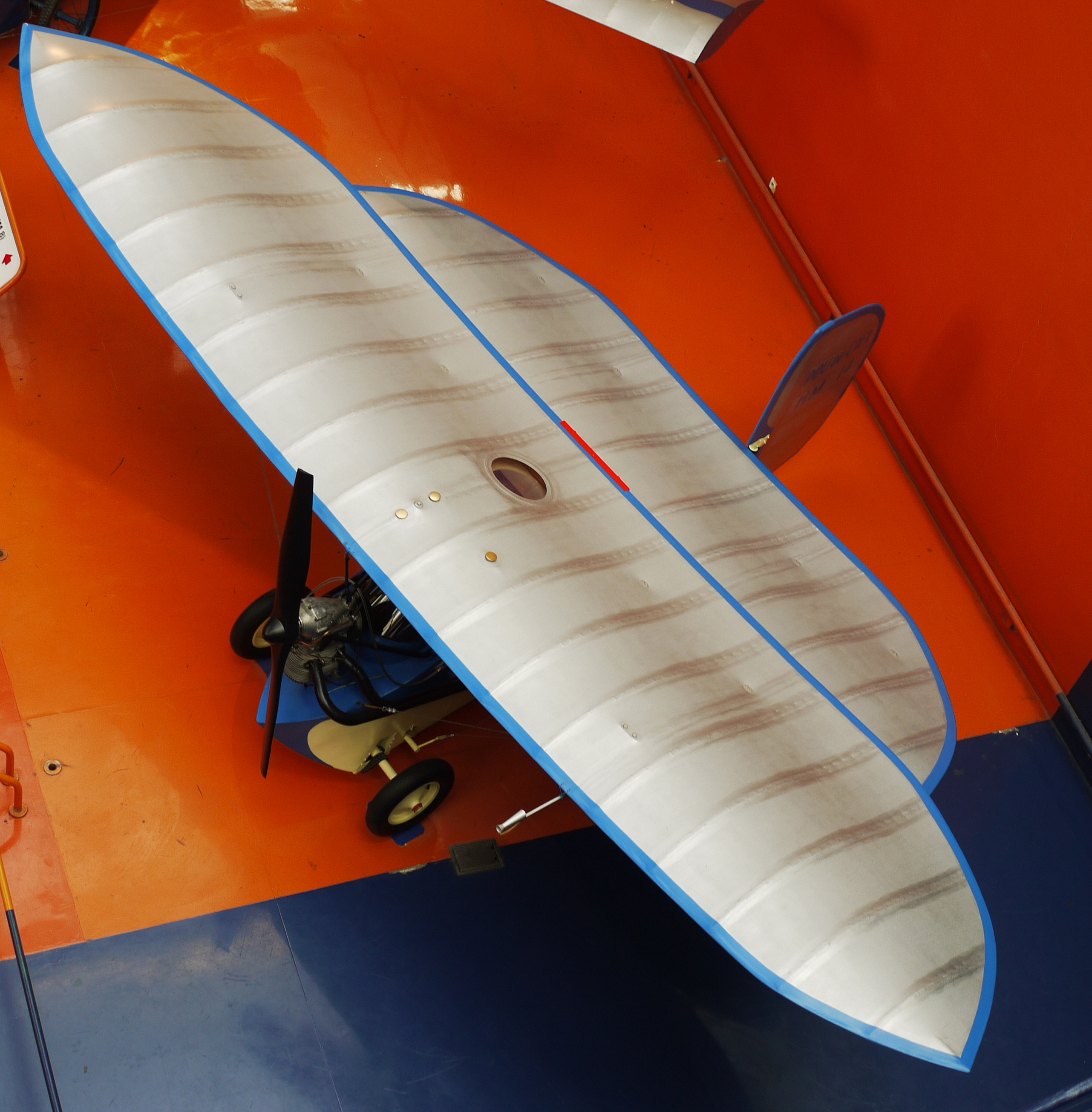 Mignet HM.14 Pou du Ciel ("Flying Flea"), Museum of Air and Space Paris, Le Bourget (France)